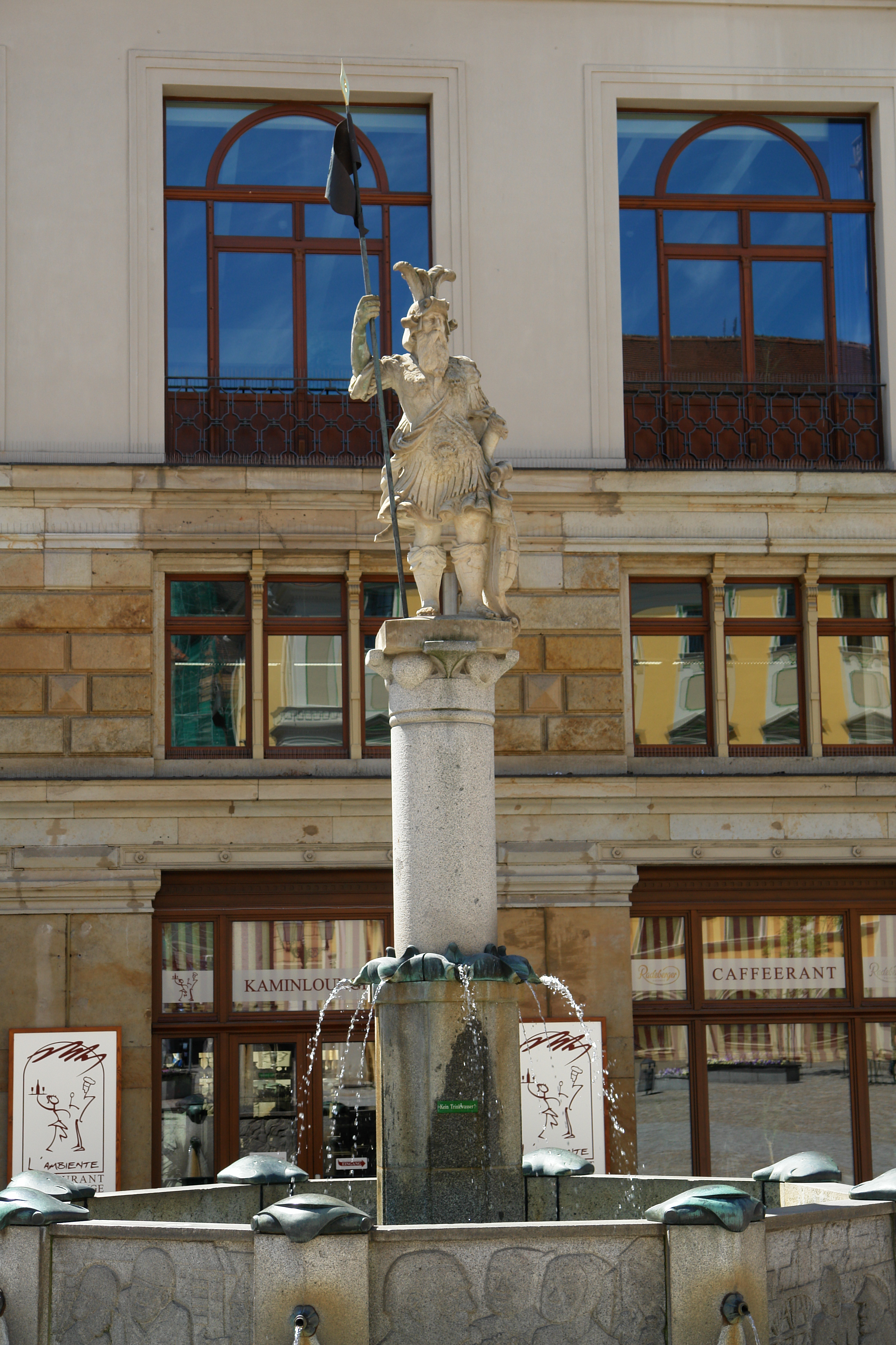 "Ritter Dutschmann" near city hall in Bautzen, Germany.